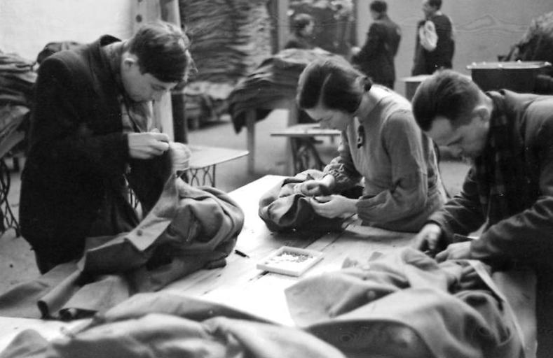 Ghetto Litzmannstadt, workers in one of the clothing workshops.